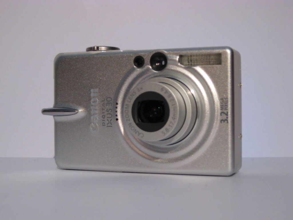 Compact Digital Camera Canon Digital IXUS 30